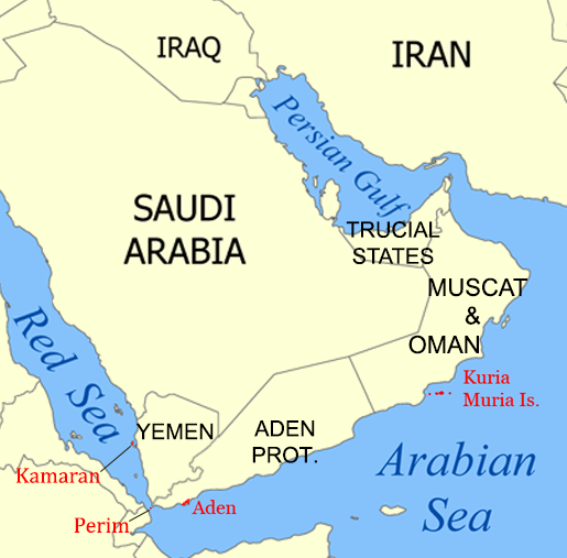 Aden Colony (red) (1937–1963) — also included the islands of Perim, Kuria Muria and Kamaran (a de facto annexation). Also shows the boundaries of the surrounding British Aden Protectorate (1869-1963) — in southern Yemen.